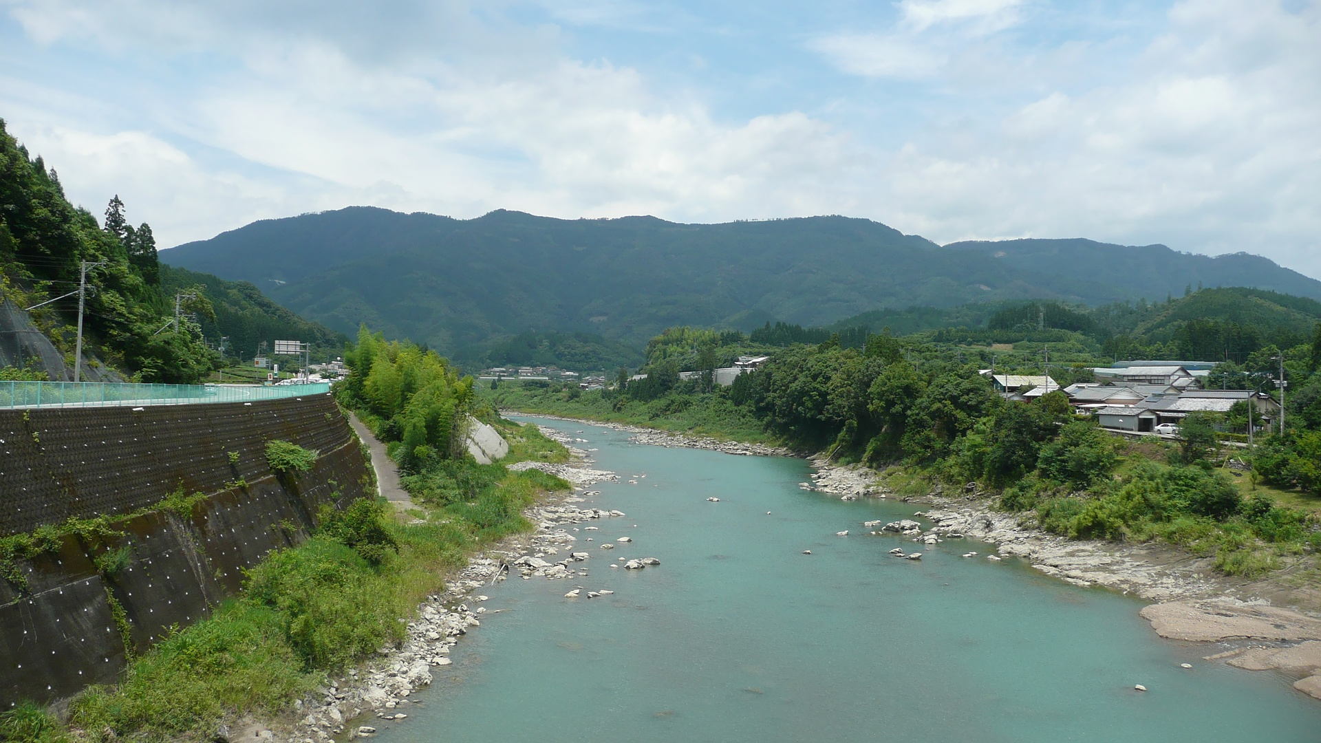 Mimikawa River (Saigo-ku, Misato Town, Miyazaki, Japan)